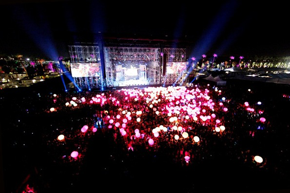 Photo from Coachella 2011 - Arcade Fire "Wake Up" Ball Drop (Summer Into Dust)